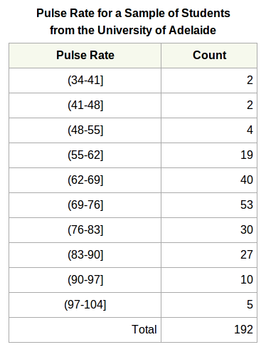 Frequency table of pulse rates; based on the dataset, survey, available in R's MASS package.